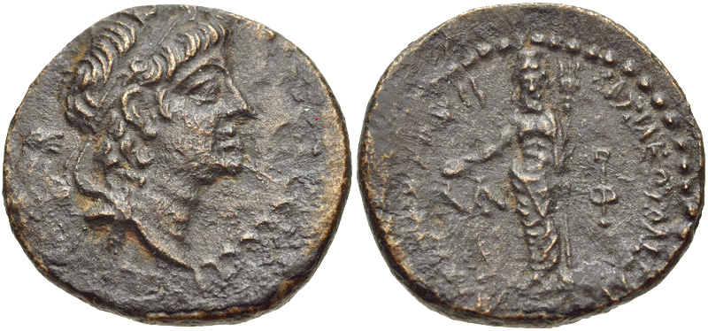 Seleukid Kings of Syria. Alexander II Zabinas. 128-122 BC. Æ 19mm (4.12 g, 12h). Berytos mint (nowdays Beirut). Diademed and draped bust right; ӨE behind Ba'al-Berit standing facing, holding phiale and trident; LA before, monogram behind. SC 2251; Z. Sawaya, “Le Monayage Municipal Seleucide de Berytos (169/8-114/3 av. J.-C.),” NC (2004), 170-177 (uncertain dies). Good VF, rough brown surfaces. From the D. Alighieri Collection.